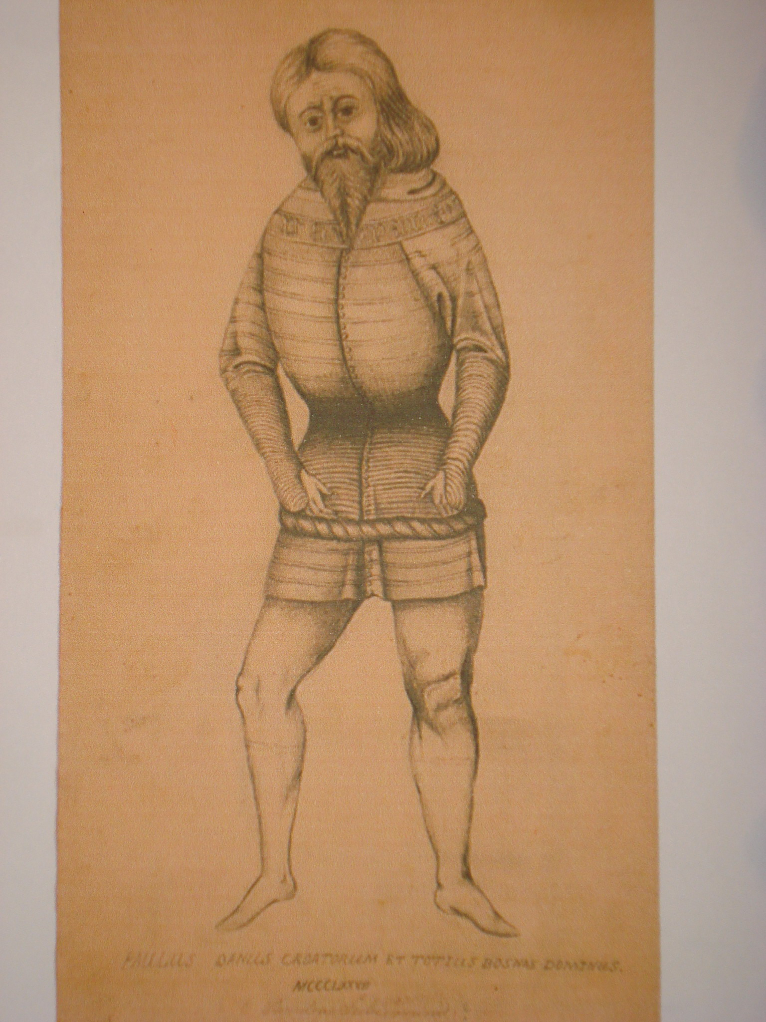 Pavao I Šubić Bribirski (Paul I Shubich of Bribir), (c. 1245 - 1312), Ban (Viceroy) of Croatia and Lord of Bosnia